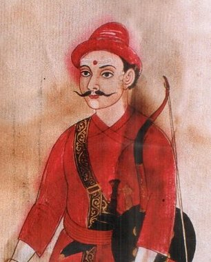 Kirtiman Singh Basnyat, Nepalese Mulkazi(PM) and Nepali Army General during Tibet Nepal war 1788 AD. Also son of war hero Kehar Simha Basnyat. Further details about Kirtiman Singh Basnyat and Tibet War